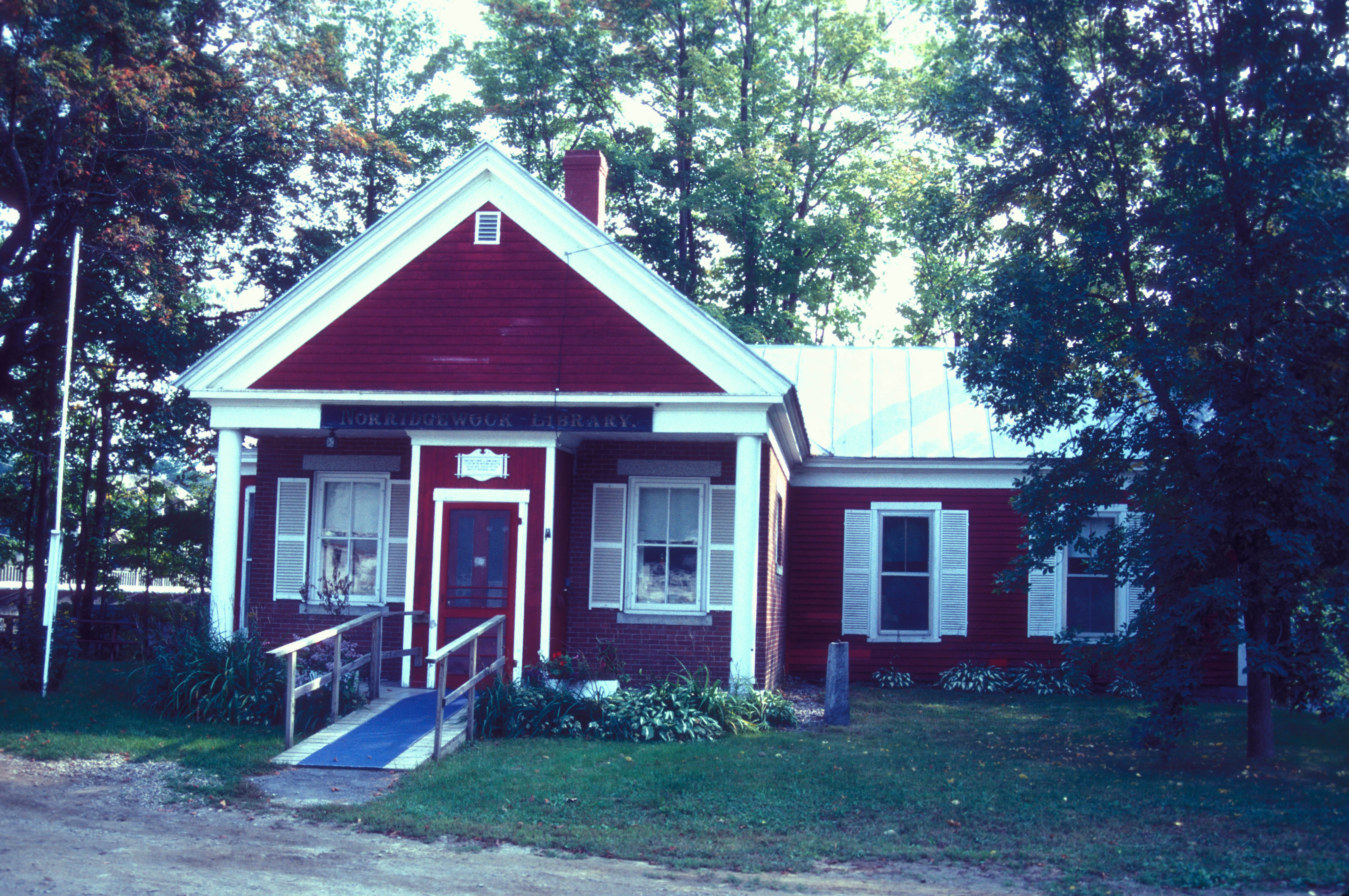 1841; GREEK REVIVAL TEMPLE- STYLE BUILDING DONATED BY REBECCA CLARK (SOPHIE MAY AUTHORESS)